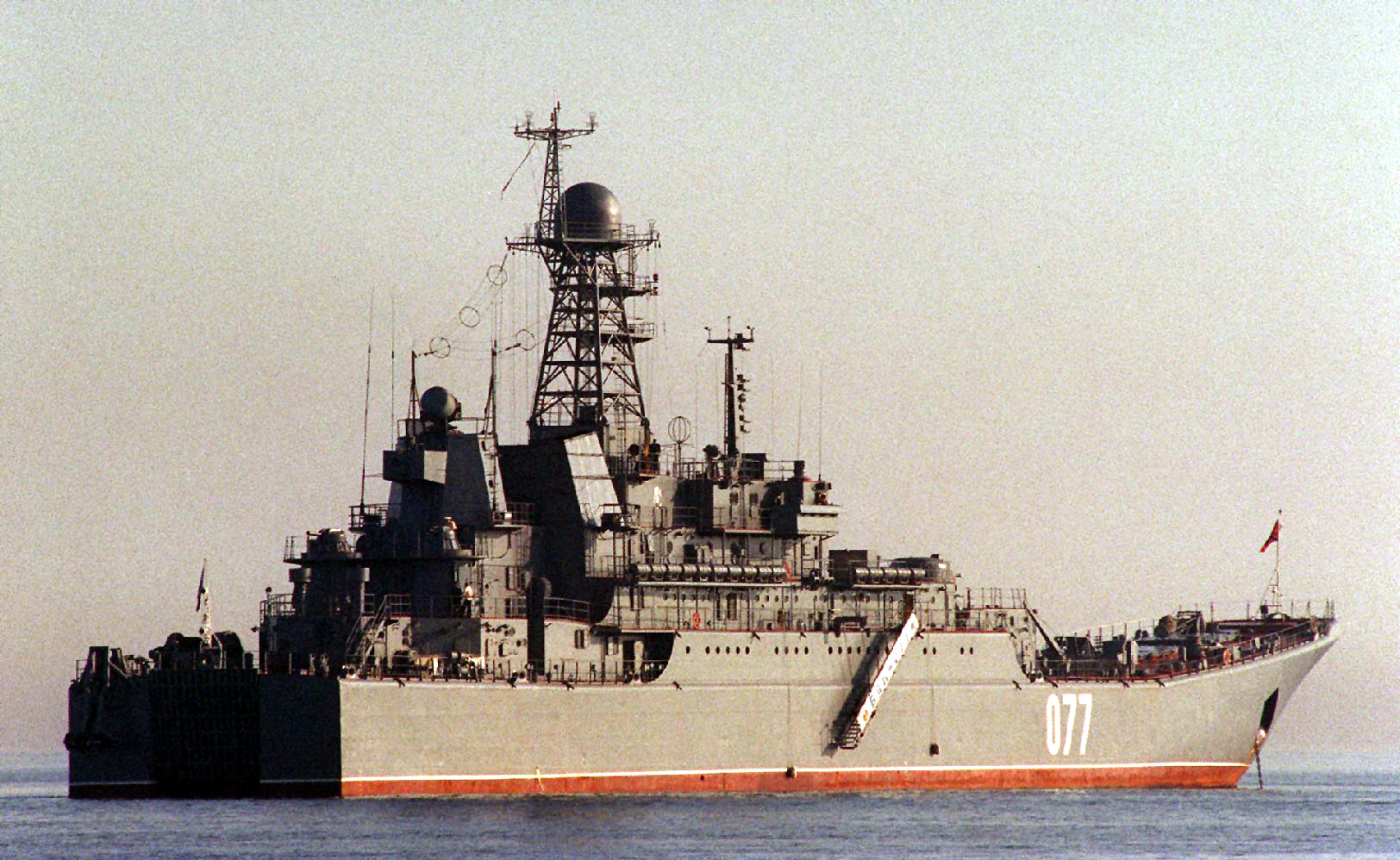 A Russian Federation Navy Ropuchhka II amphibious assault ship lies at anchor near Vladivostok, Russia, on Aug. 16, 1996, as the ship readies for Exercise Cooperation From the Sea '96. U.S. Navy and Marine Corps units of the 7th Fleet and Russian Federation Navy units are conducting the exercise near the port city of Vladivostok. The purpose of the exercise is to improve interoperability with Russian military forces in conducting disaster relief and humanitarian missions. Personnel exchanges and training will promote cooperation and understanding between the U.S. and Russian Federation Naval Forces.